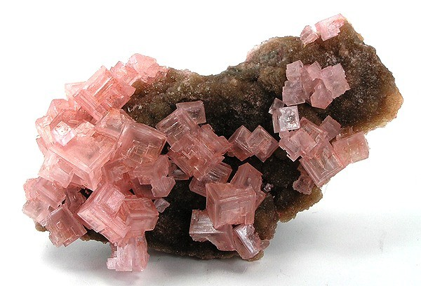 Halite, Nahcolite Locality: Searles Lake, San Bernardino County, California, USA (Locality at ) Okay, halite is salt, but for one thing, it is just as legitimate a mineral as any other, even if you CAN eat it (not this though - it contains bacteria so dont lick it!). This batch of gorgeous halite specimens was mined recently in California, and they are REALLY distinctive. Look at the amazingly fine structure of the crystals and beautiful bright pink color! But more than that, they have this wonderful contrast with a uniquely new matrix covered with minute nahcolite . Bottom line: it is just a plain stunningly pretty mineral specimen from a recent find; I bought ALL OF THEM THAT WERE AVAILABLE from the one contact who brought them to a show late last year in California. THIS IS A REALLY LARGE AND EXCEPTIONAL SPECIMEN FOR THE FIND, WITH SUPERB, ISOLATED CRYSTALS! NOTE that they are sensitive to humidity. 15.6 x 9.3 x 6.0cm